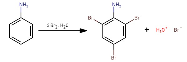 Aniline strongly activates the ring. Even without iron bromide catalyst, a precipitate of 2,4,6-tribromoaniline will instantly form in room temperature.